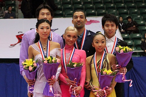 The pairs podium at the 2010-2011 Grand Prix of Figure Skating Final. From left: Pang Qing / Tong Jian (2nd), Aliona Savchenko / Robin Szolkowy (1st), Sui Wenjing / Han Cong (3rd).